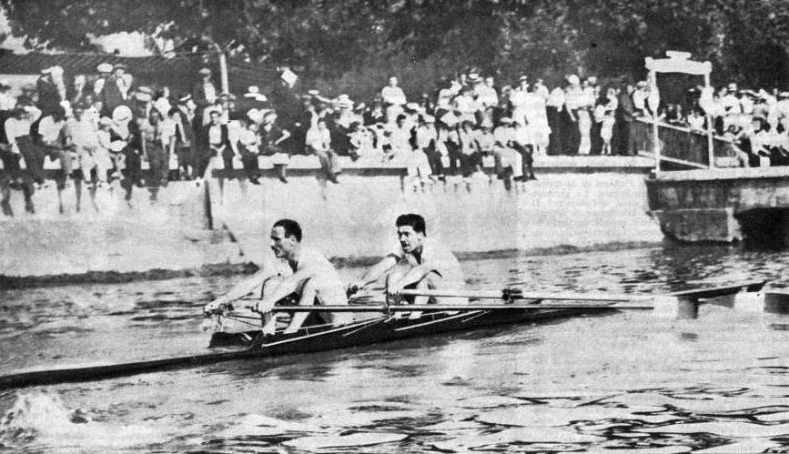 The French double scullers Louis Hansotte and Georges Frisch became European Champions